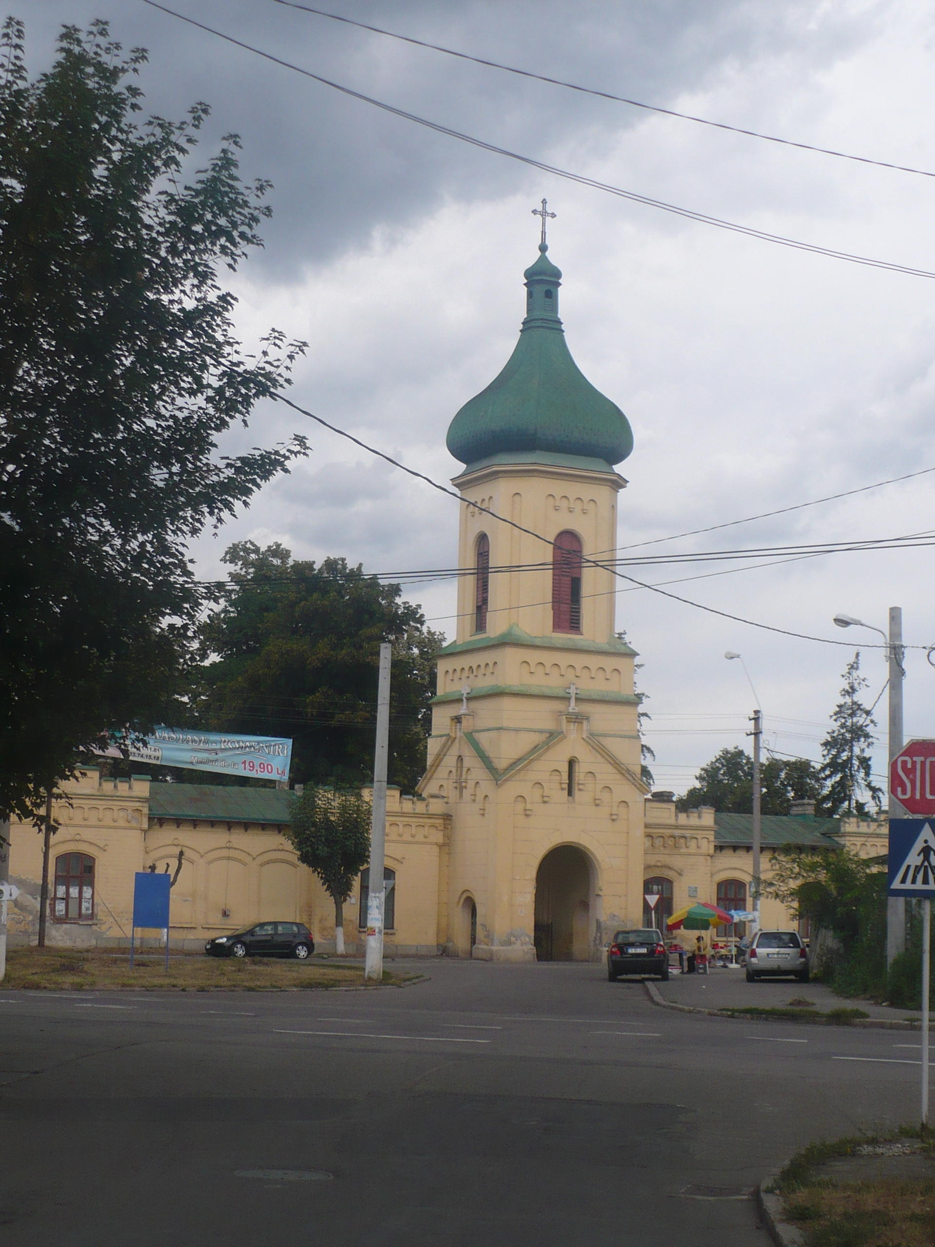 Eternitatea Cemetery in Roman.